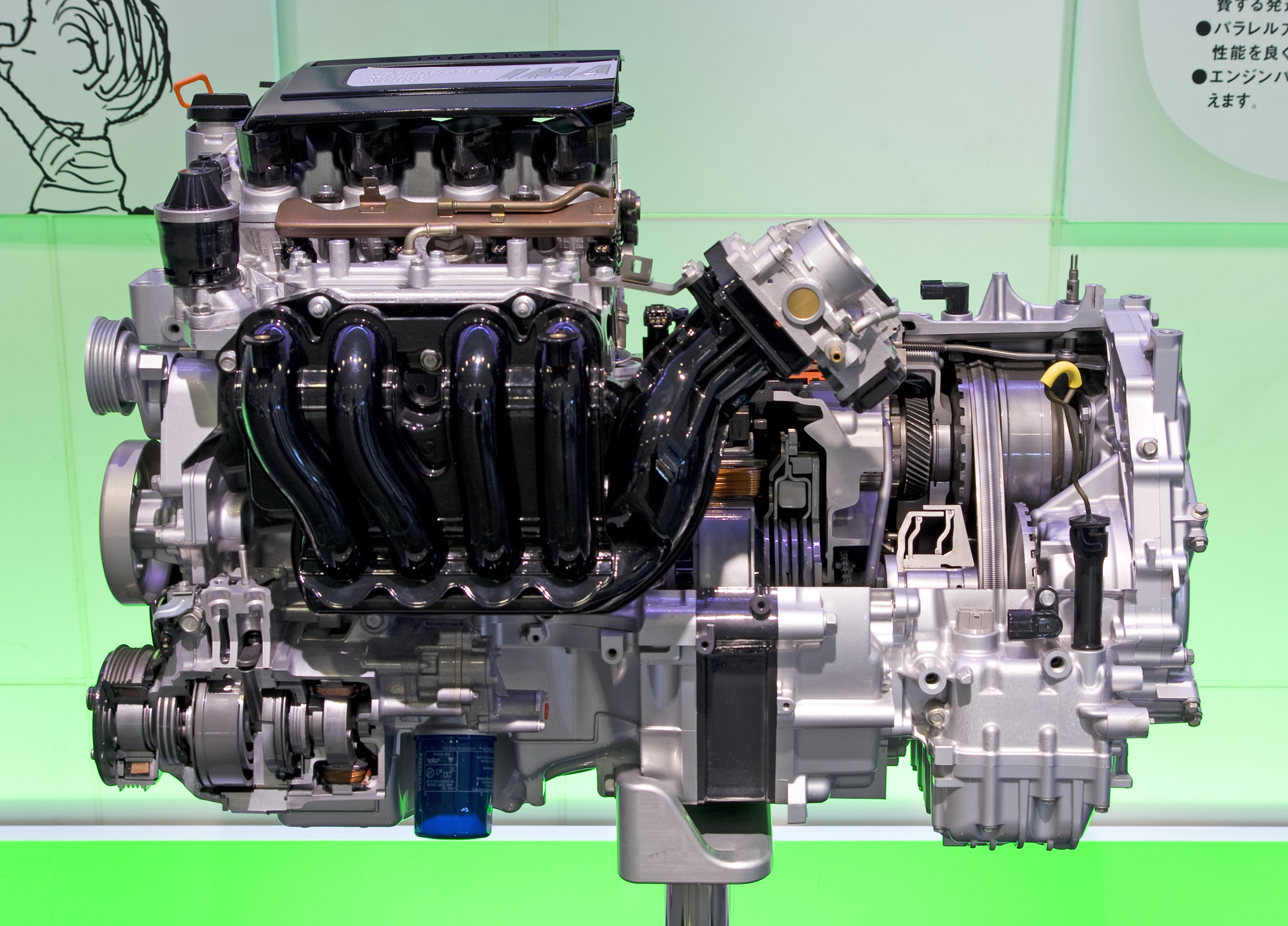 A cutaway photograph of Honda Hybrid System ( LDA 1.3L SOHC 3Stage i-VTEC Engine + IMA ) installed in Honda FD3 Civic Hybrid